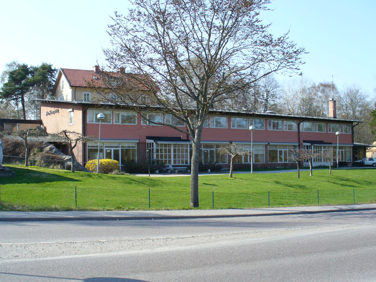 Sankta Annagården, the parish office for Lidingö parish, Sweden